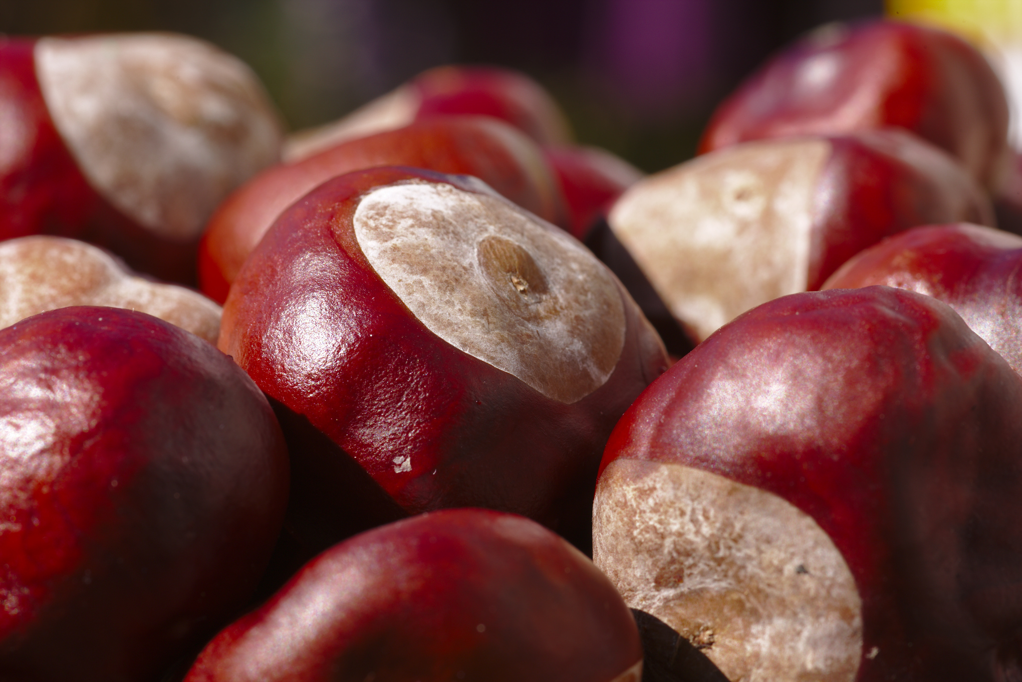 Horse-chestnut conkers